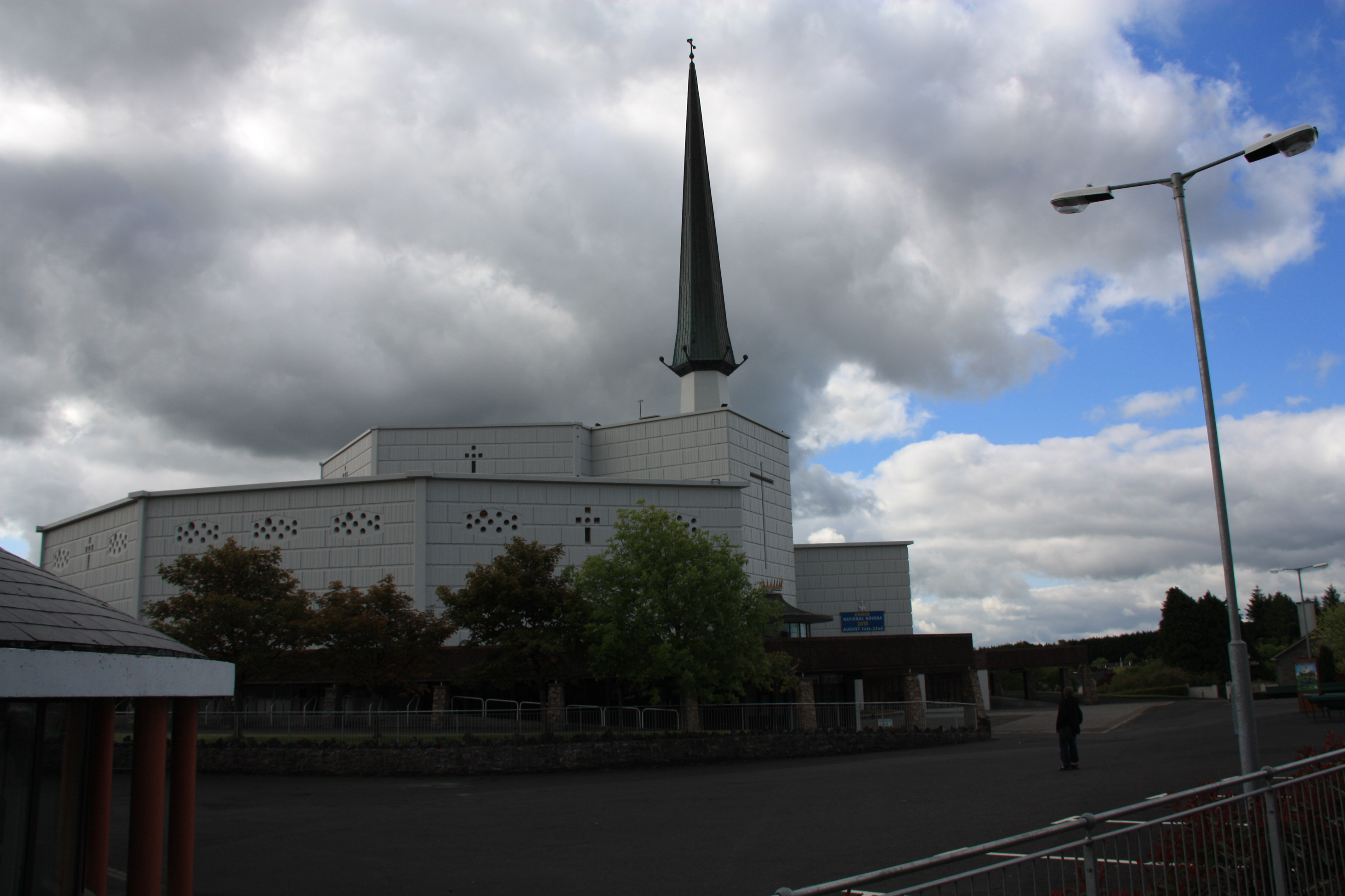 The Knock church